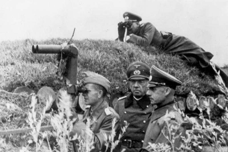 Periscope binoculars in foreground